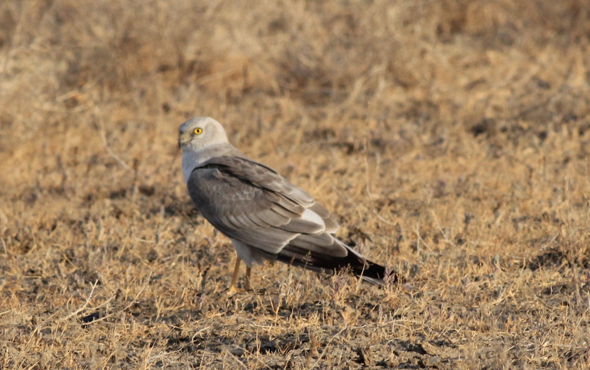 The Pallid harrier is a winter migratory bird to india .This is picture of the harrier roosting